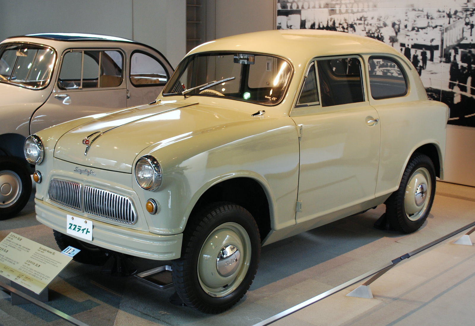 1st generation Suzuki_Suzulight Model SL